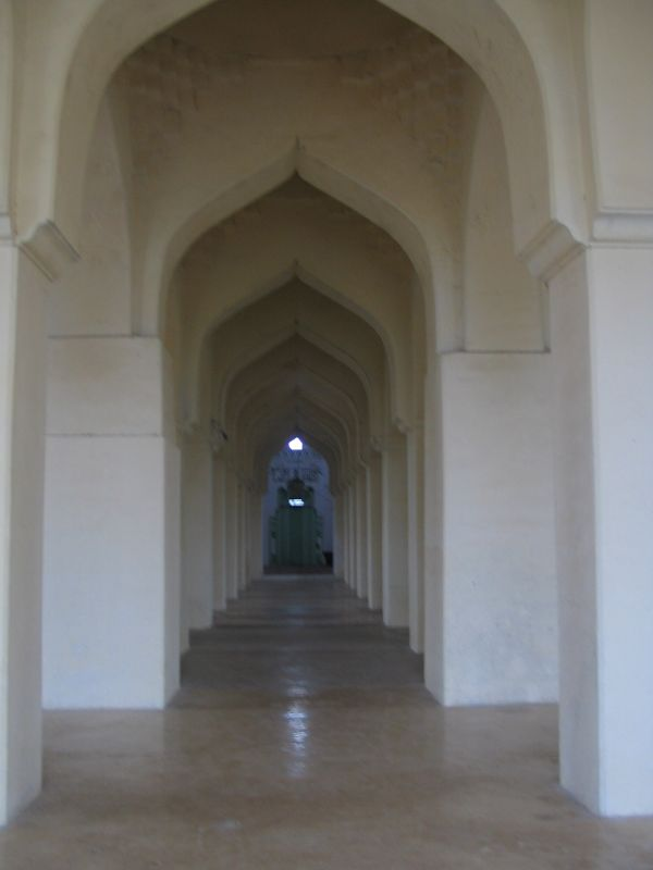 interior of the Jama Masjid (14th century) at Gulbarga (Karnataka, India)